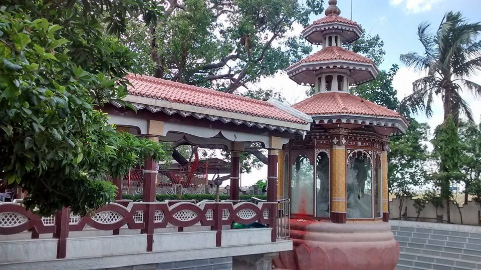 jagdamba temple in narauli bakhtiyarpur